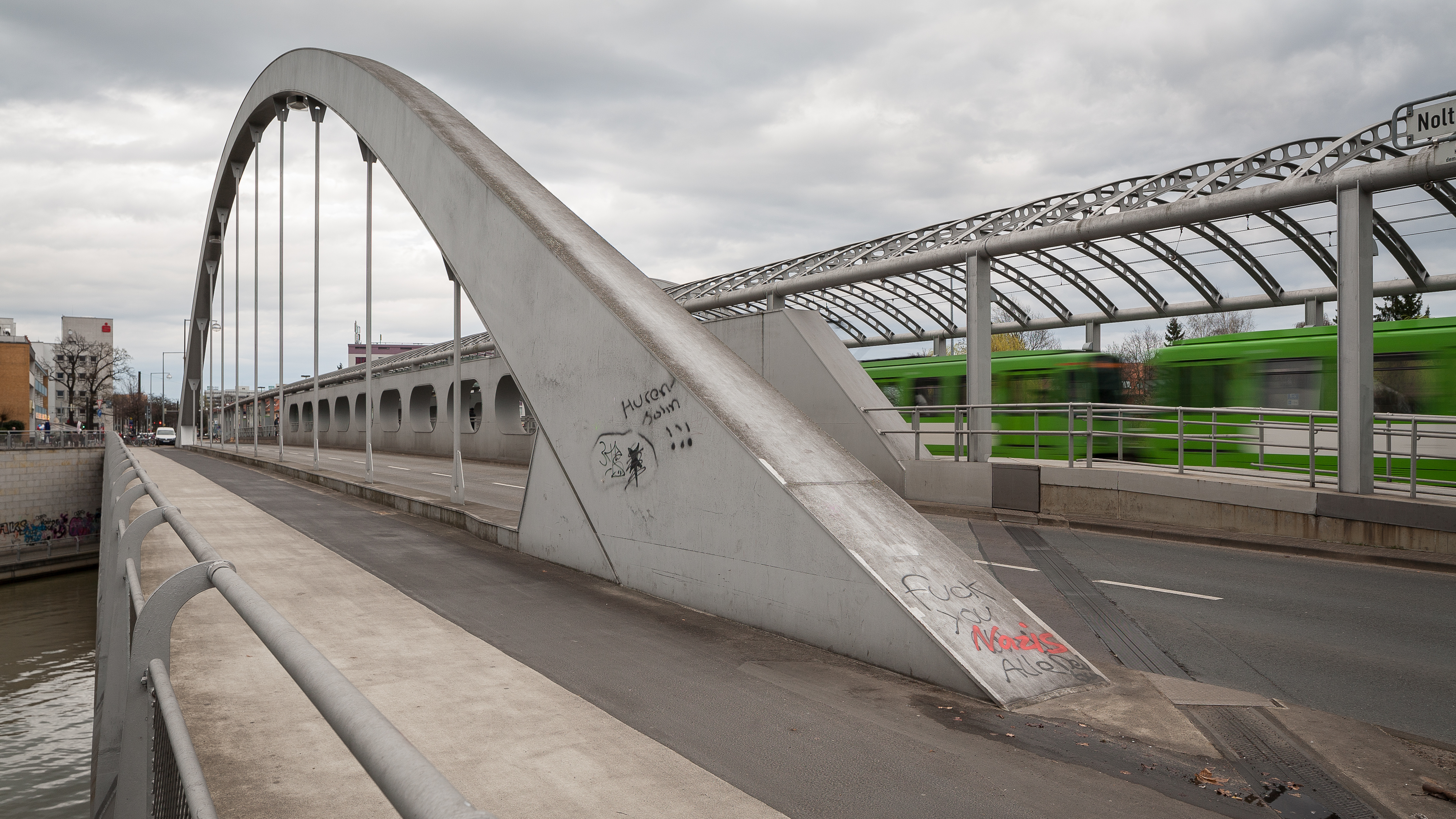 Noltemeyer bridge over the Mittelland Canal located in Hanover (Buchholz), Germany.